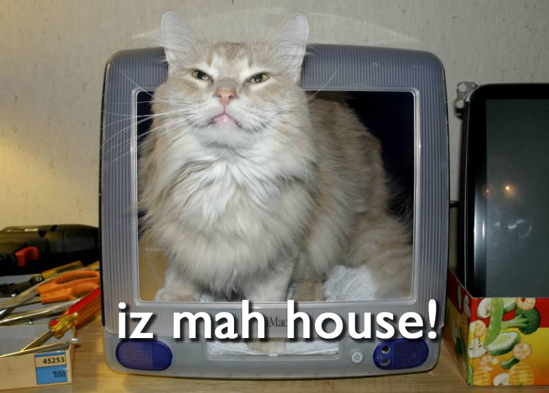 Yet another lolcat.